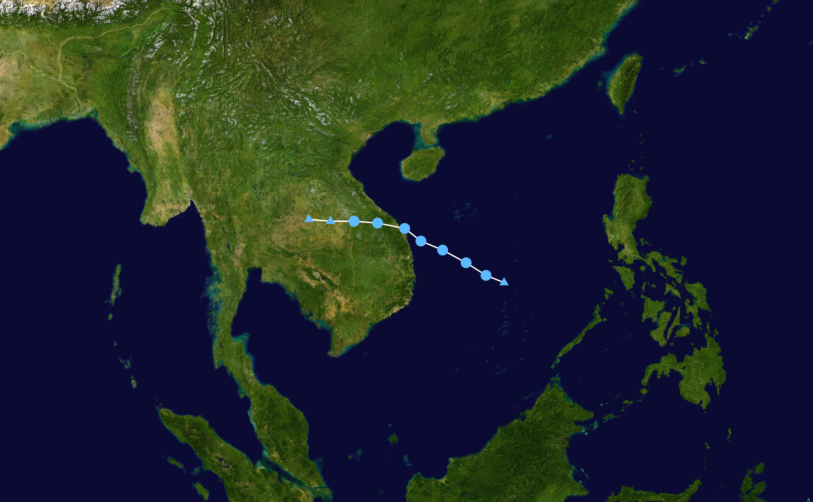 Track map of Tropical Storm Rai of the 2016 Pacific typhoon season. The points show the location of the storm at 6-hour intervals. The colour represents the storm's maximum sustained wind speeds as classified in the Saffir–Simpson scale (see below), and the shape of the data points represent the nature of the storm, according to the legend below. Saffir–Simpson scale Tropical depression≤38 mph≤62 km/h Category 3111–129 mph178–208 km/h Tropical storm39–73 mph63–118 km/h Category 4130–156 mph209–251 km/h Category 174–95 mph119–153 km/h Category 5≥157 mph≥252 km/h Category 296–110 mph154–177 km/h Unknown Storm type Tropical cyclone Subtropical cyclone Extratropical cyclone / Remnant low / Tropical disturbance / Monsoon depression